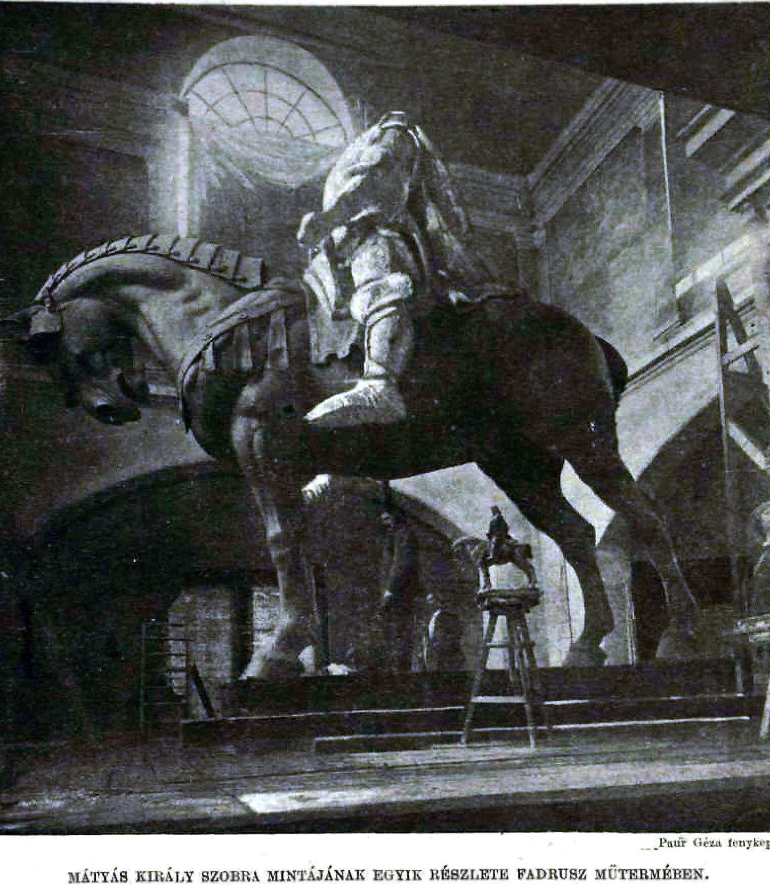 The Mátyás statue of Cluj-Napoca under created in the sculptor's studio